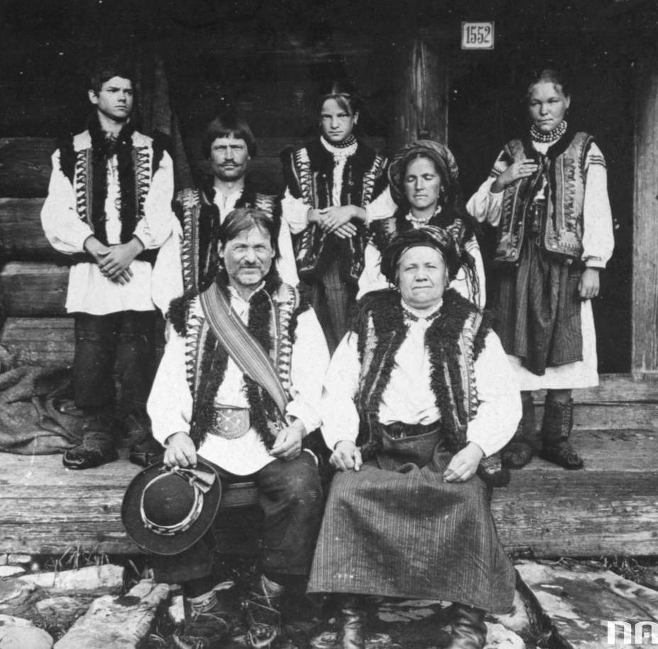 Hutsuls (Ukrainian highlanders) from Verkhovyna, southern part of Ivano-Frankivsk oblast (province), western Ukraine. old prewar photo.